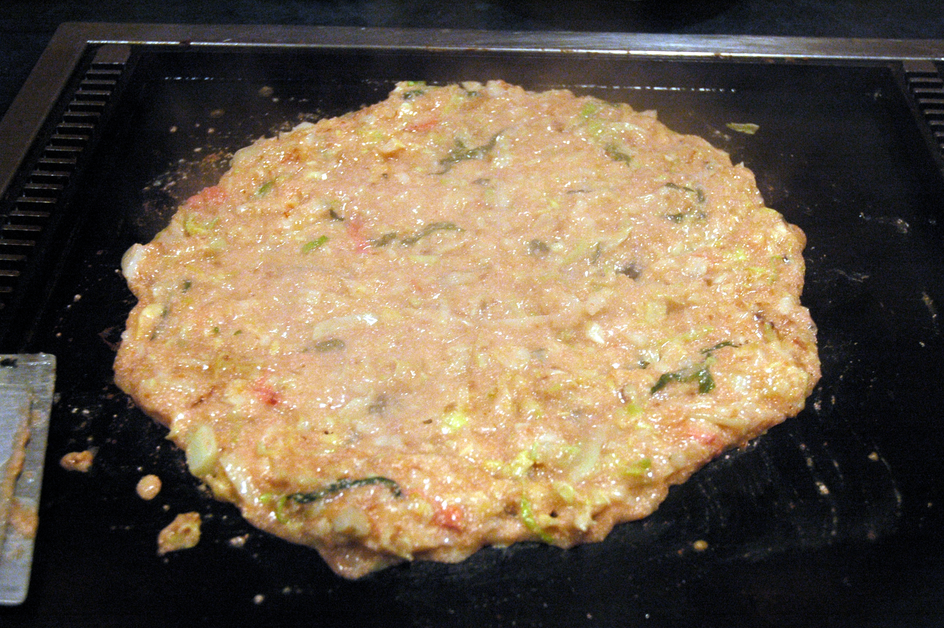 Monjayaki after cooking, with mentaiko (cod roe) and shiso (perilla). Taken at Oshio, Tsukishima, Tokyo.